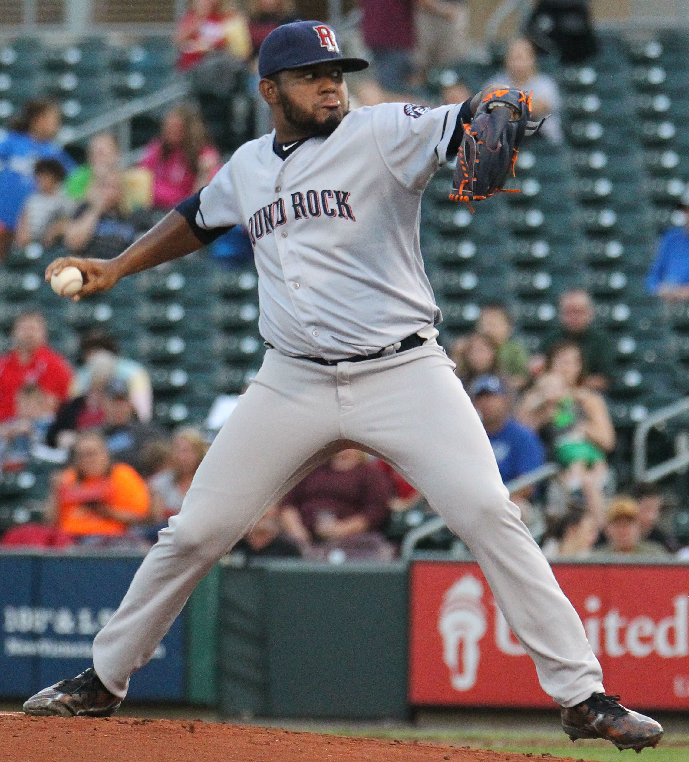 Rogelio Armenteros delivers a pitch for the Round Rock Express during a 2019 game at Werner Park in Nebraska.